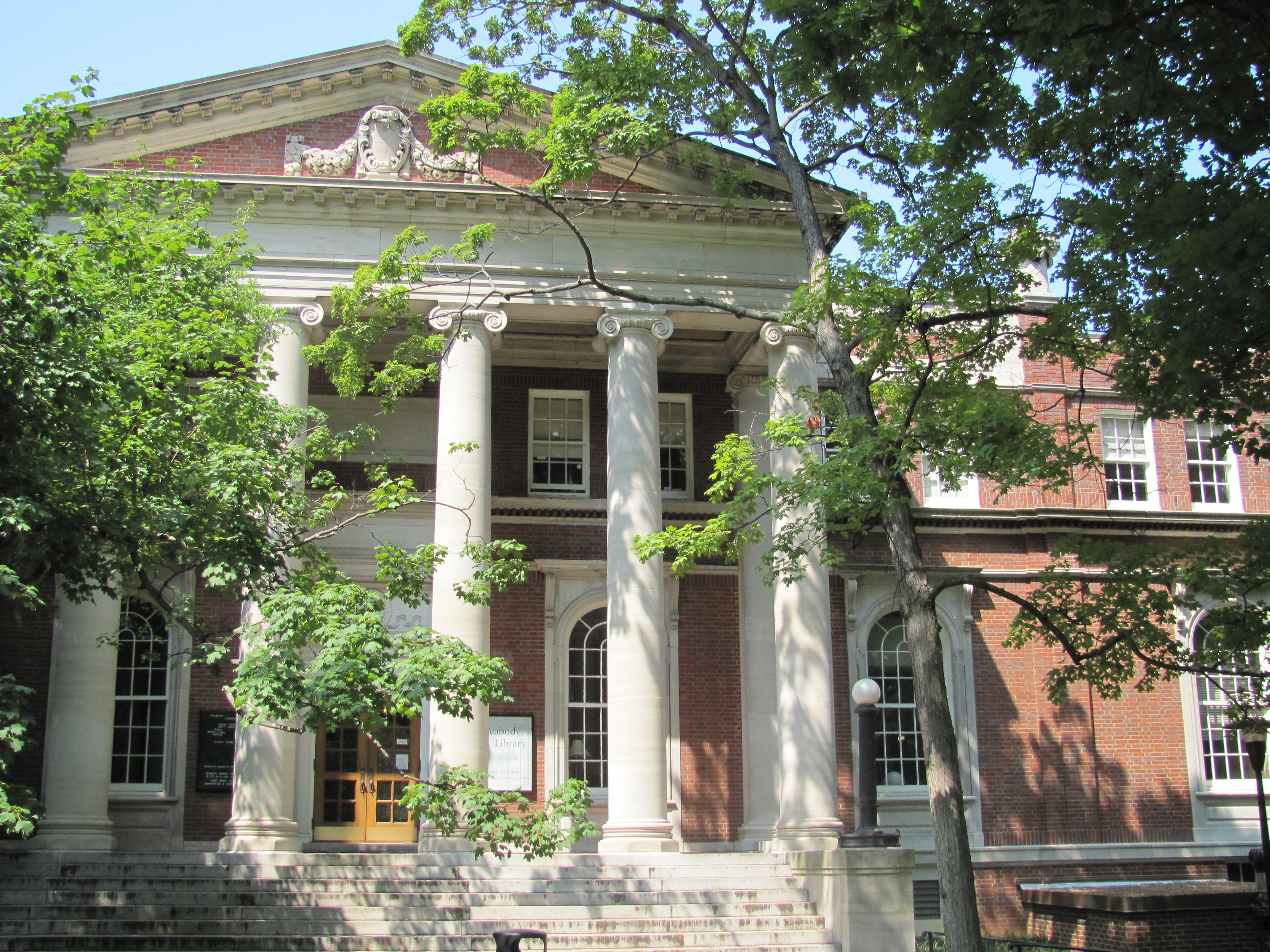 Peabody Library, Front View, Vanderbilt University